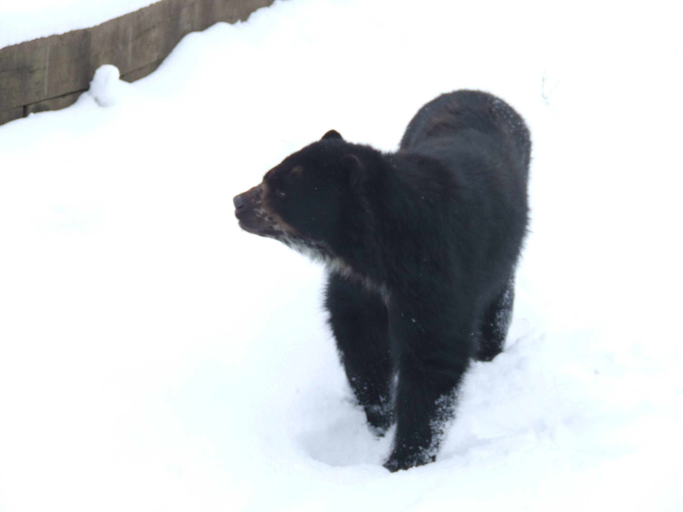 photography of Tremarcos onatus (ursus) in old zoologic Parc de la Tête d'Or. This potential class is bear and Tremarcos ornatus.